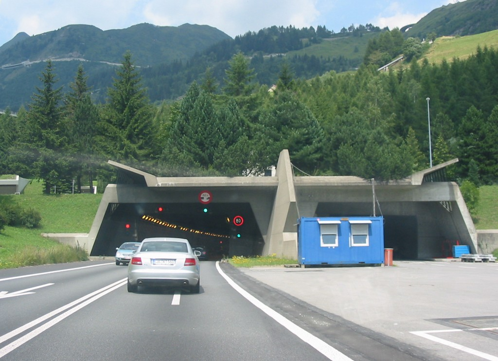 The entrance to the St. Gotthard Tunnel (Switzerland) from the south side (Airolo)